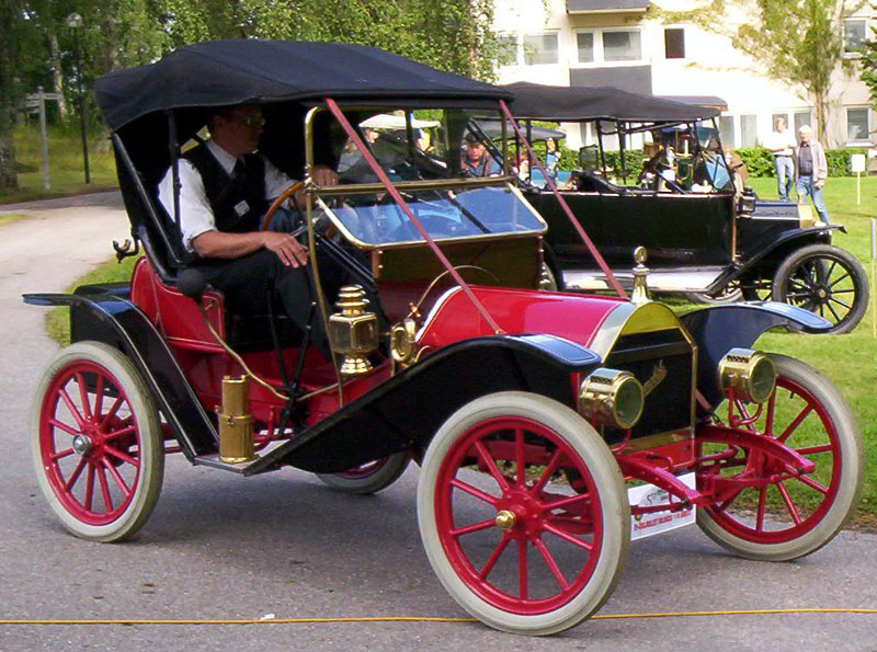 Hupmobile Model 20 Runabout 1910